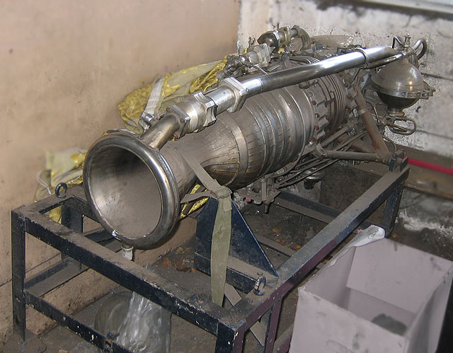 de Havilland Spectre rocket engine as used in the Saunders-Roe SR.53